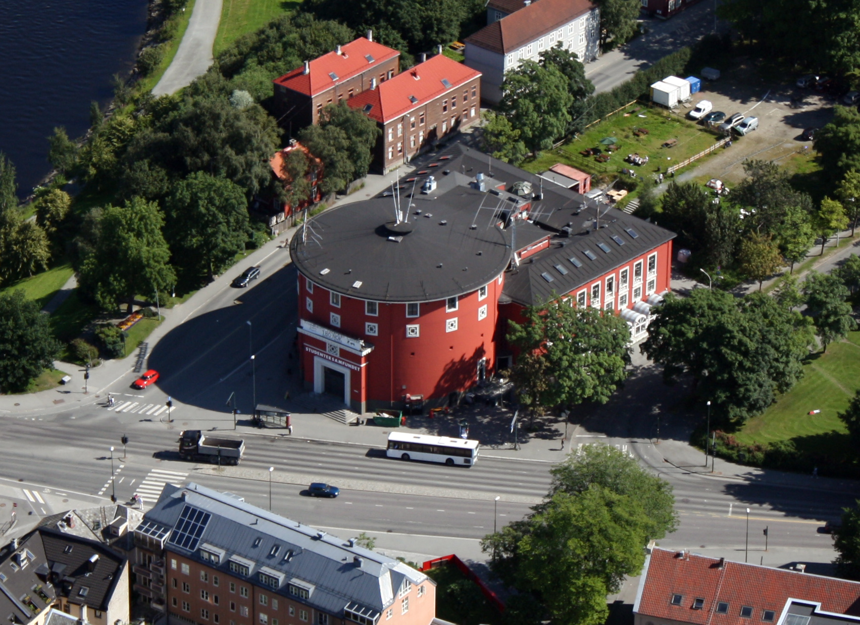 The Student Society of Trondheim.